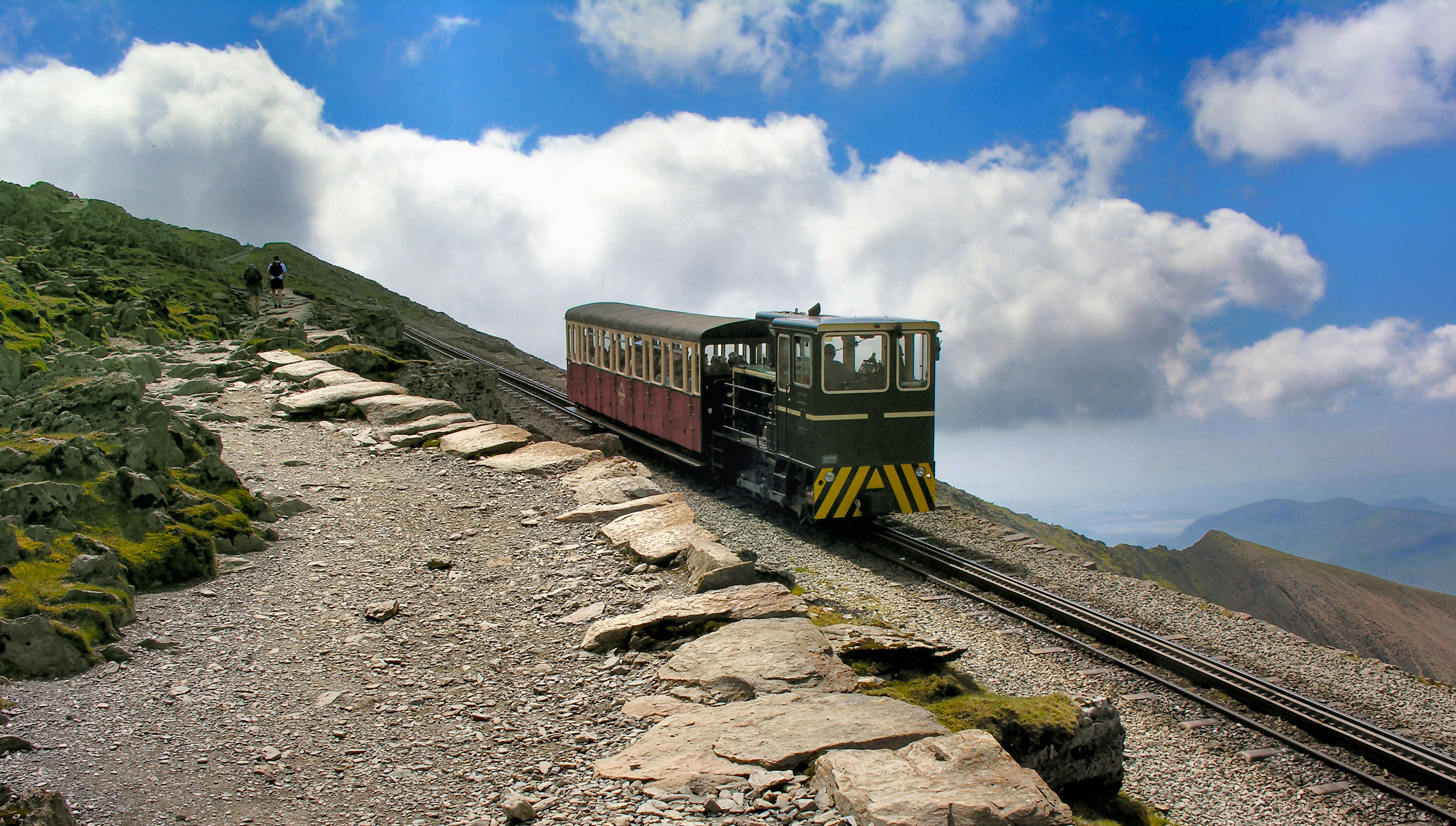 A Snowdon Mountain Railway's train approaching the Summit Station. Taken from the Llanberis Path.